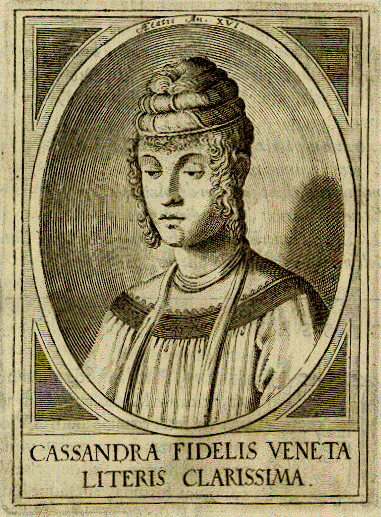 Italian Scholar Cassandra Fedele (1465–1558)